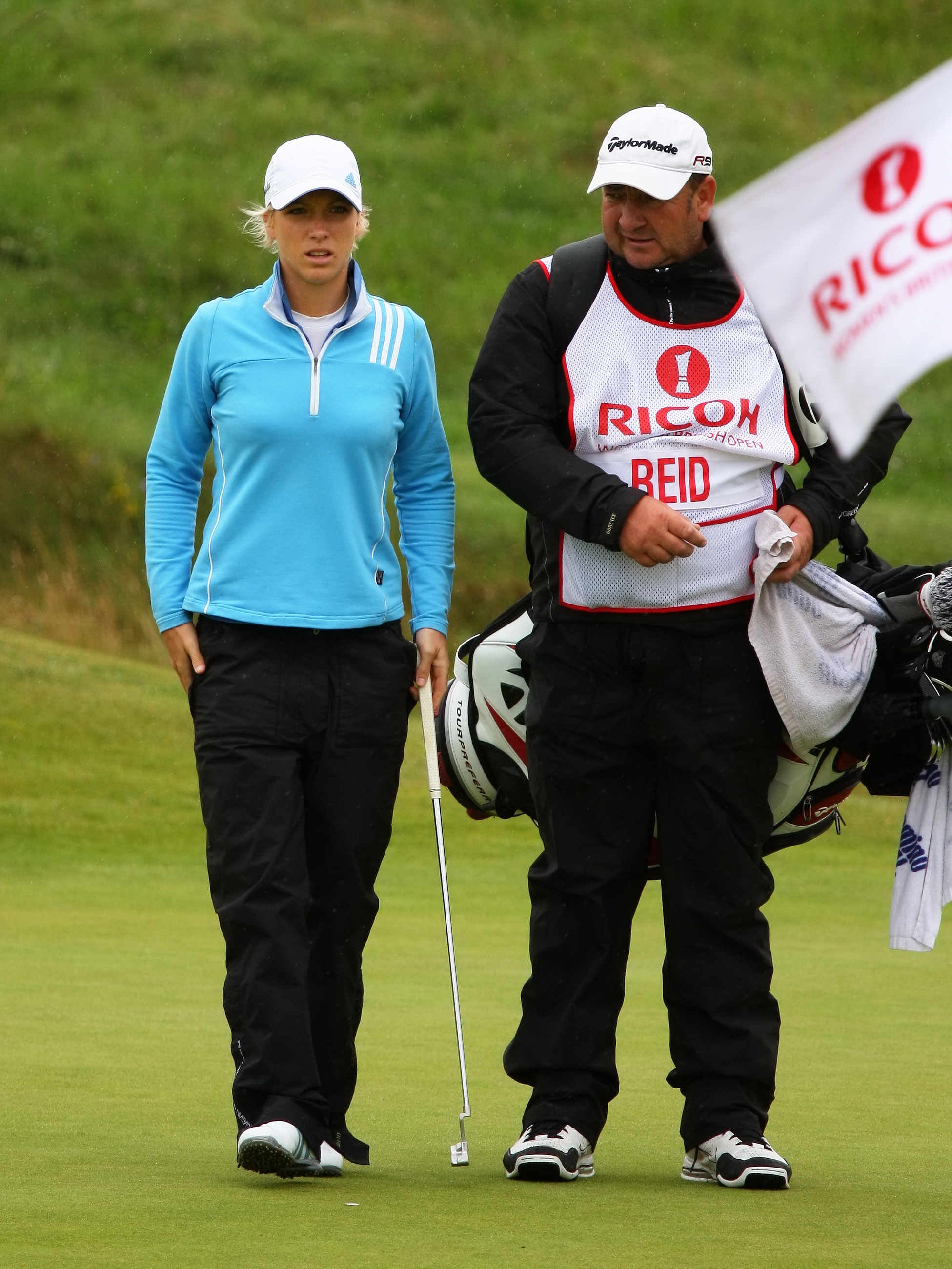 SOUTHPORT, UNITED KINGDOM - JULY 27: Melissa Reid of England and her caddie Lee Griffiths on the 8th green during pro-am round before 2010 Ricoh Women's British Open held at Royal Birkdale on July 27, 2010 in Southport, England. (Photo by Wojciech Migda)